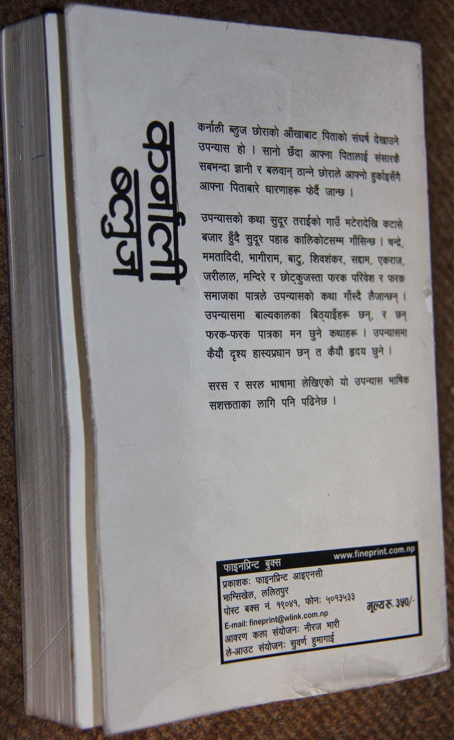 This is the back cover of the famous Nepali Novel Karnali Blues by Buddhisagar.